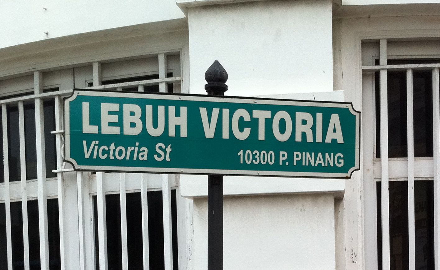 New street sign: Victoria St, George Town, Penang